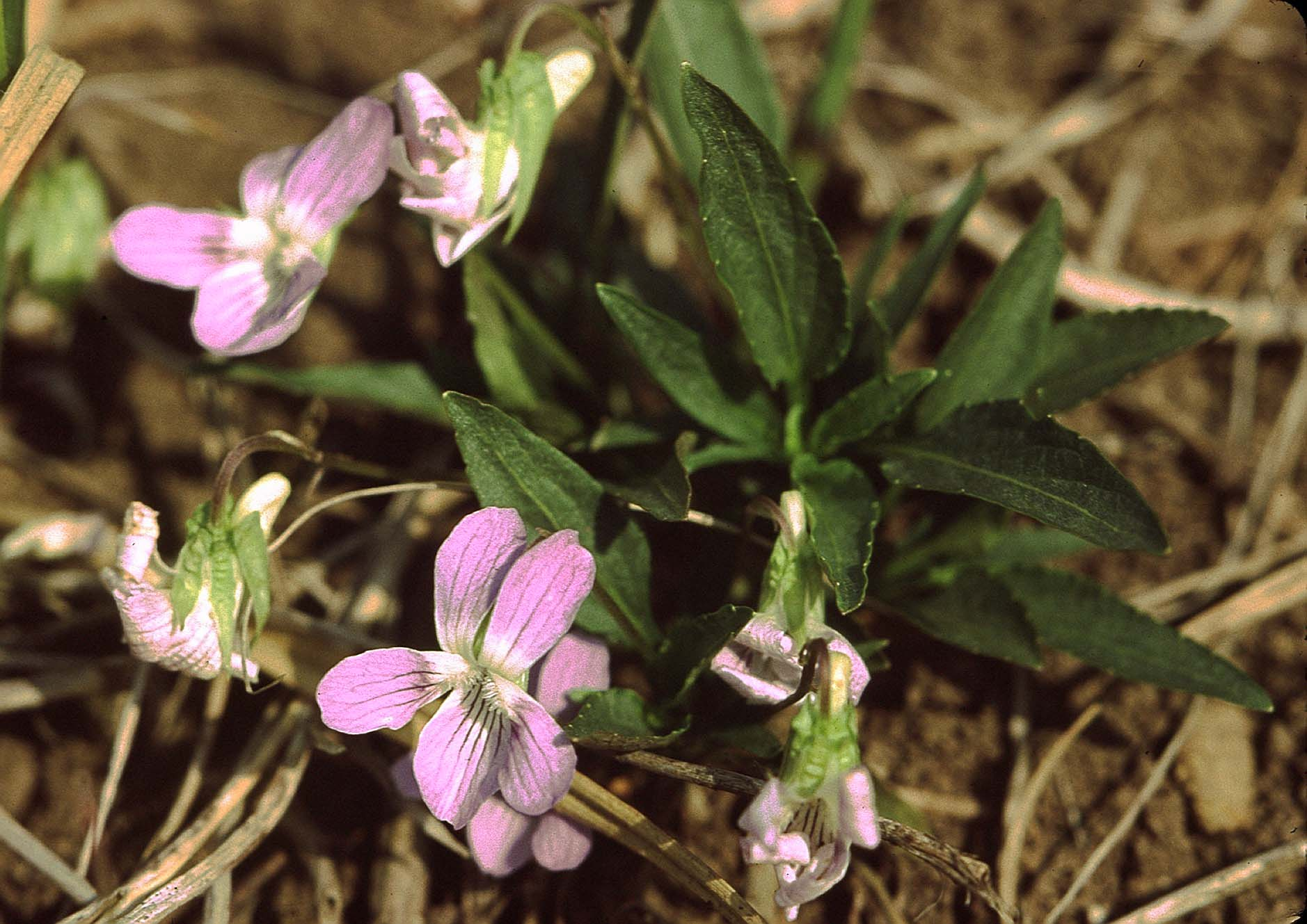 Viola pumila Photographed by myself in 1988, Unterfranken, Germany